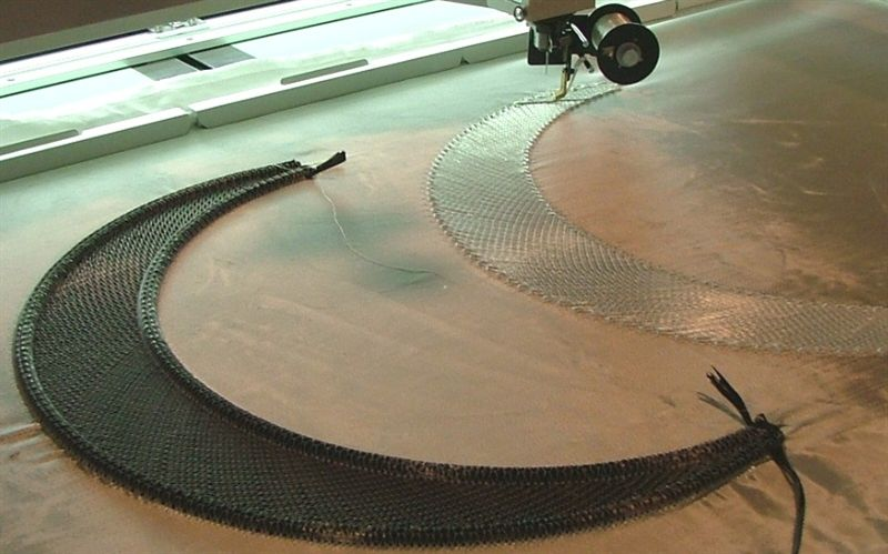 Examples of TFP performs produced with carbon glass